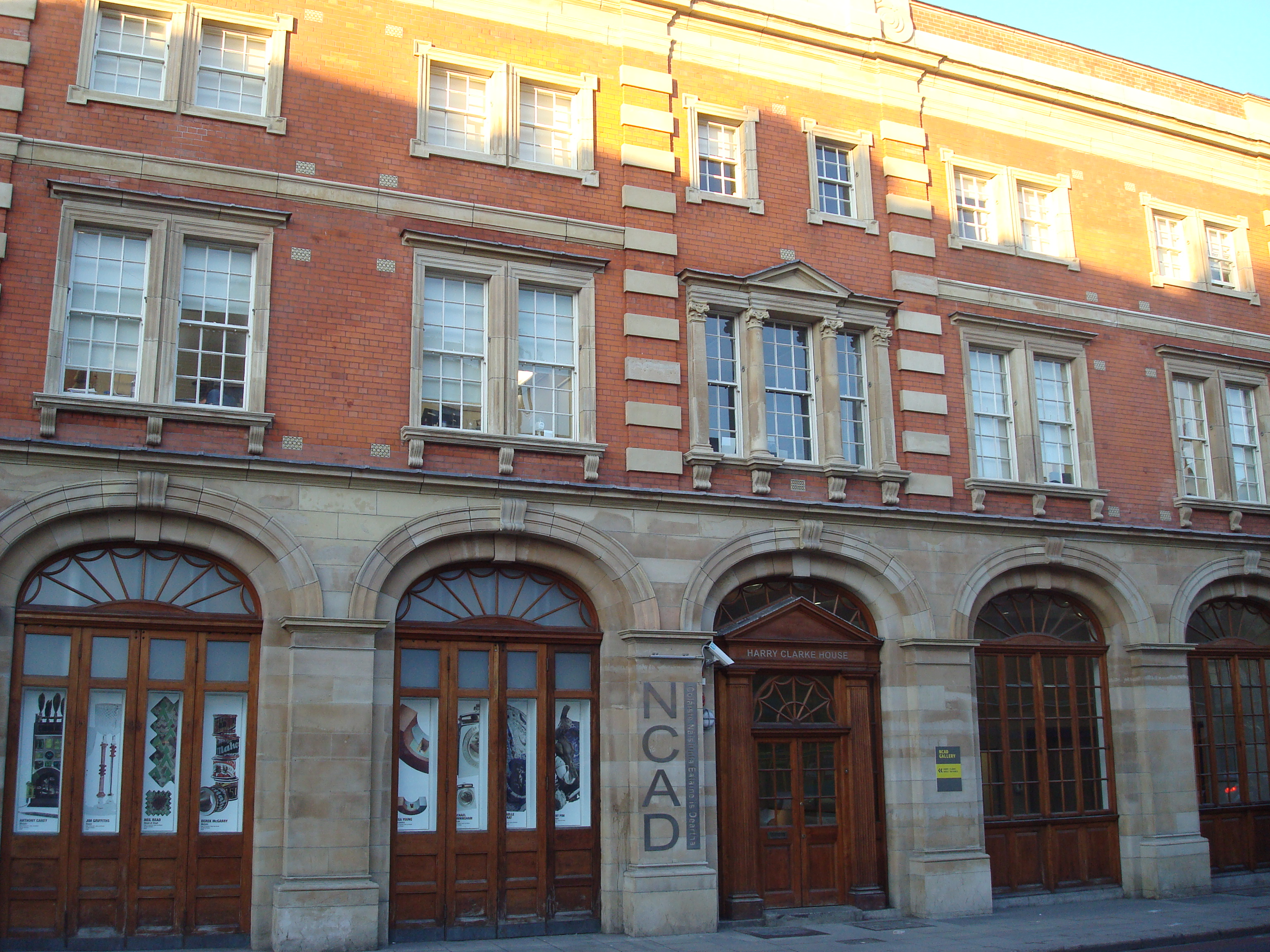 National College of Art and Design, Thomas Street, Dublin, Ireland